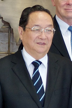 Deputy Prime Minister Maud Olofsson, CPC party chief in Shanghai Yu Zhengsheng 俞正声 and His Majesty the King Carl XVI Gustaf of Sweden, surrounded by other VIP. By: Tobias Andersson Åkerblom